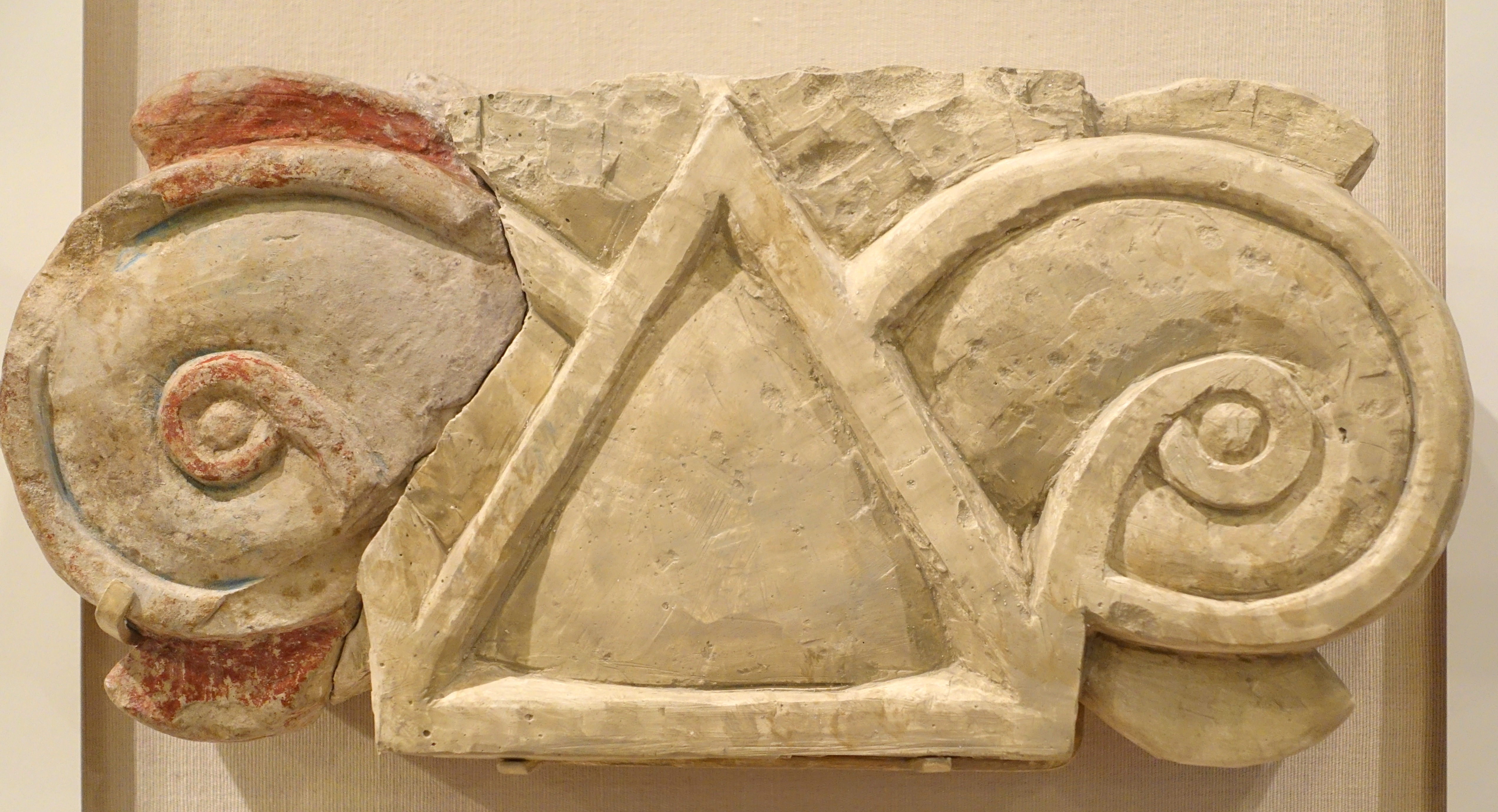 Exhibit in the Oriental Institute Museum, University of Chicago, Chicago, Illinois, USA. This work is old enough so that it is in the public domain.